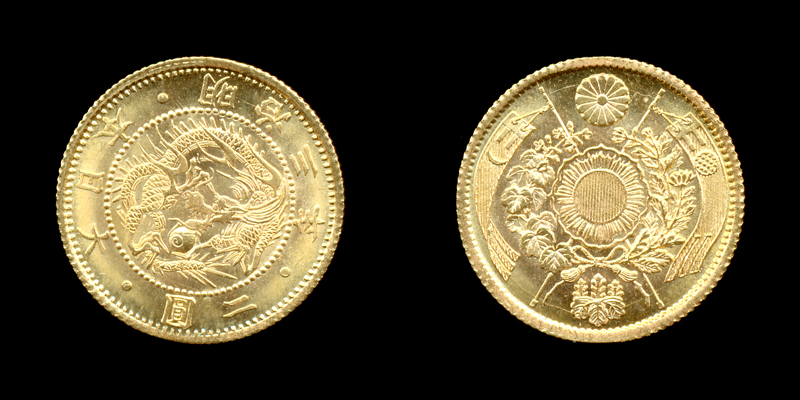 2yen-M3